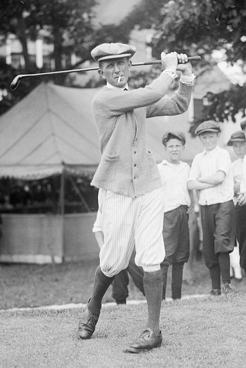 Jock Hutchinson playing at the Pelham Country Club. Location: Pelham Manor, New York, USA.